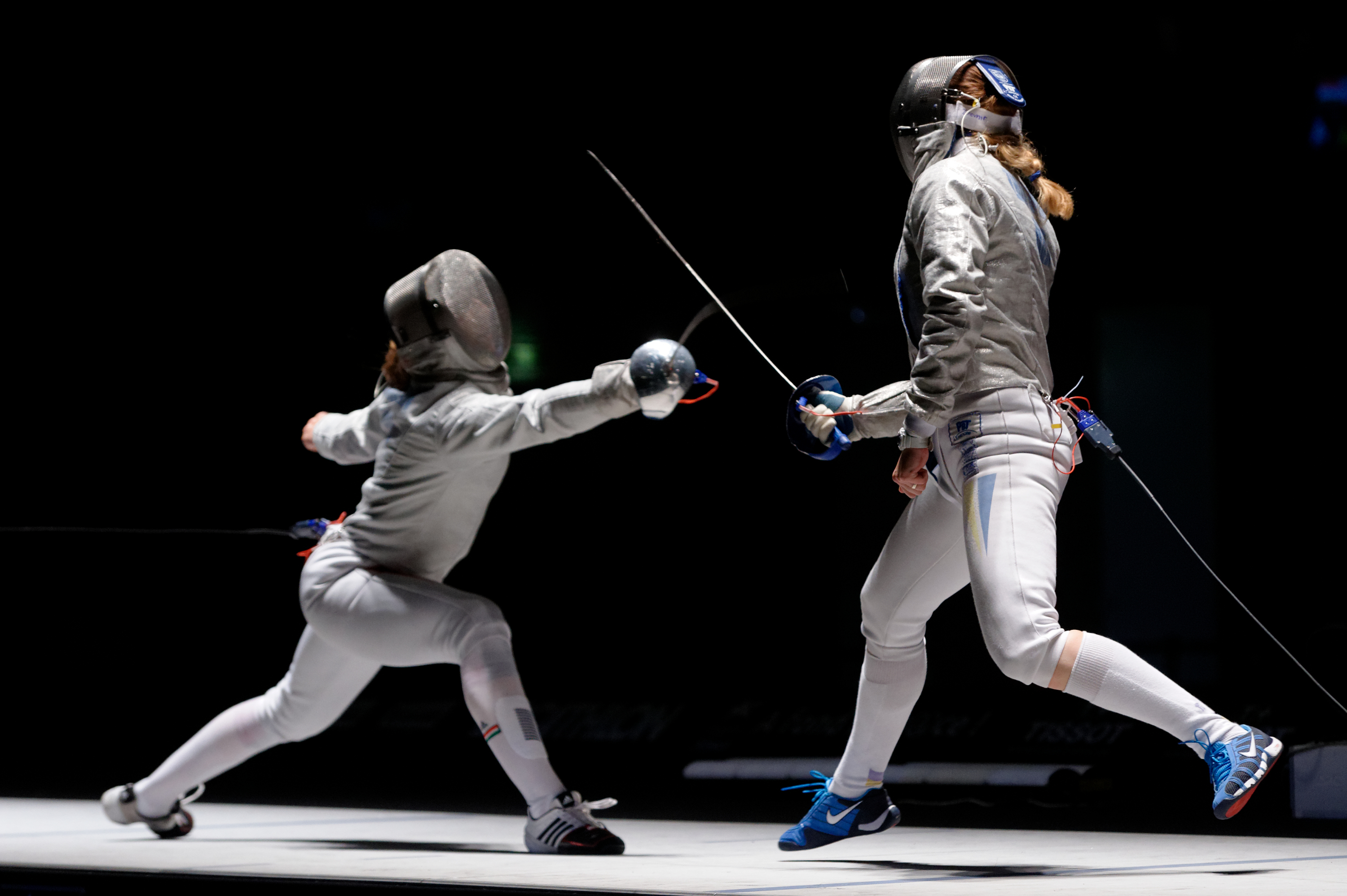 Anna Márton of Hungary (L) attacks Ukraine's Olha Zhovnir (R) with a lunge during the match for the 3rd place in the women's team sabre event at the European Fencing Championships at Rhénus Sport in Strasbourg on 13 June 2014.